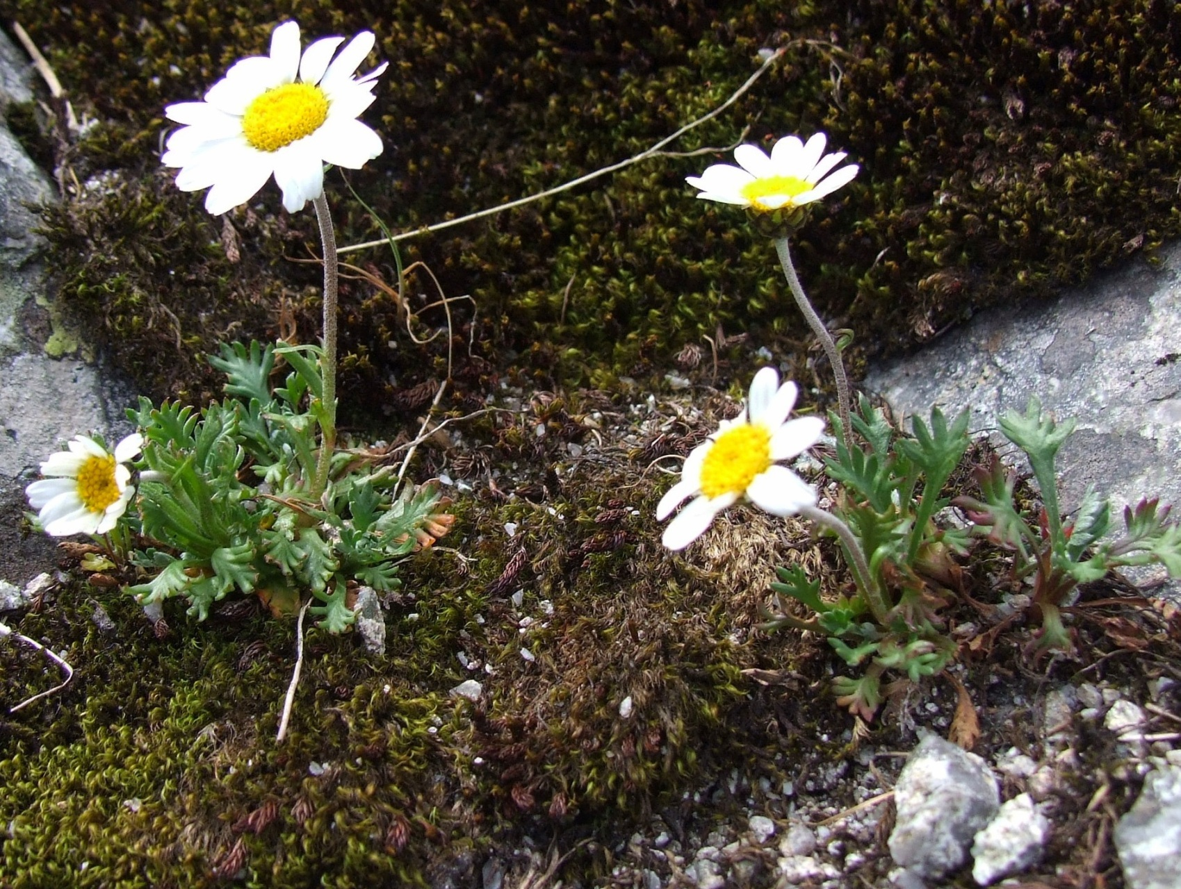 Leucanthemopsis alpina